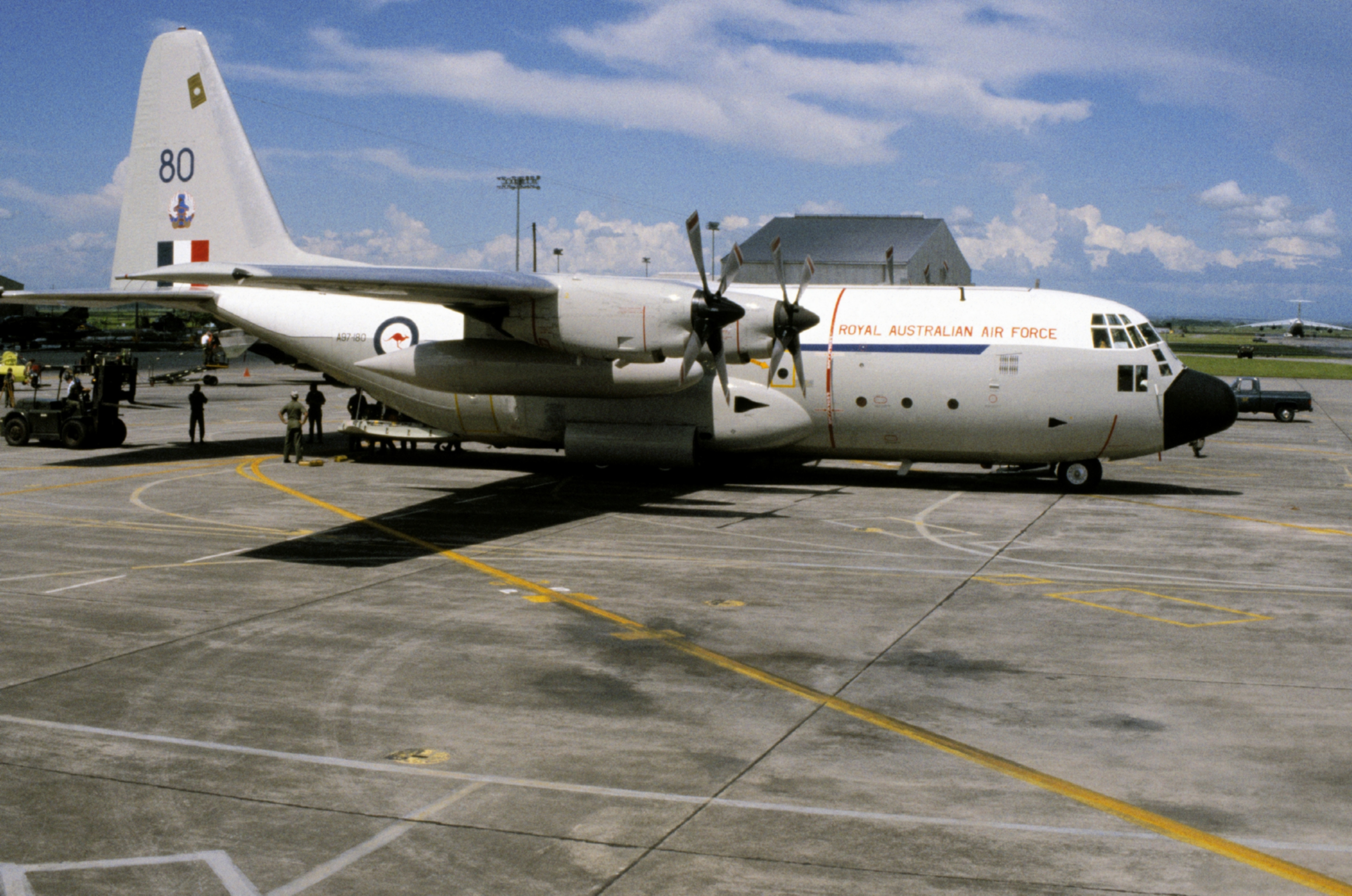 A Royal Australian Air Force Lockheed C-130E Hercules aircraft (s/n A97-180) from No. 37 Squadron carrying support personnel and equipment for exercise "Cope Thunder" at Clark Air Base, Philippines, on 12 November 1981.